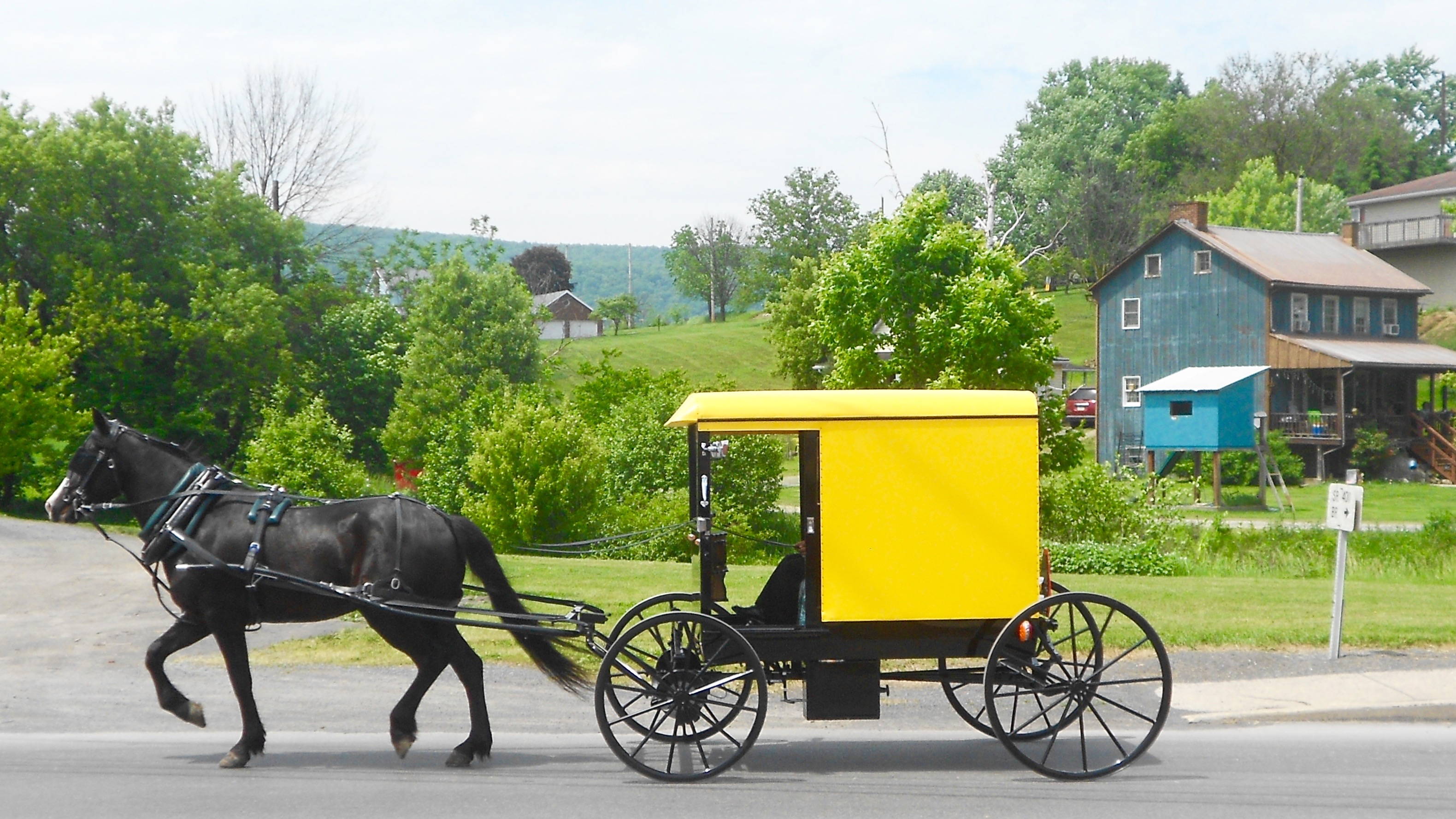 Yellow topped buggy with a real horse near the center of town in Belleville, Pennsyvania